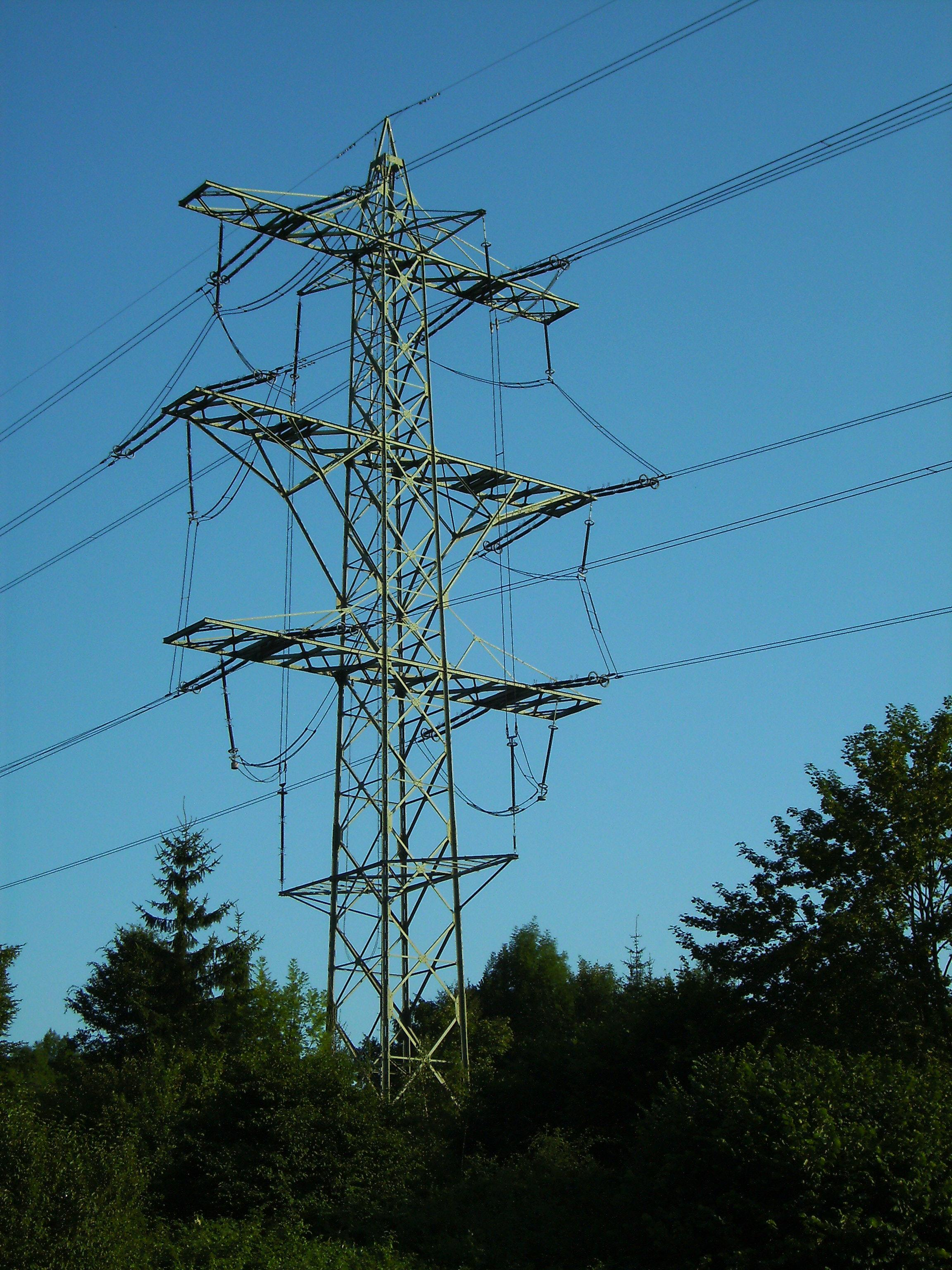 Pylon 206 of 380 kV/220 kV-powerline Hoheneck-Herbertingen (facility 4508), an impressionant twisting pylon near Rübgarten at 48°34'3"N 9°10'33"E